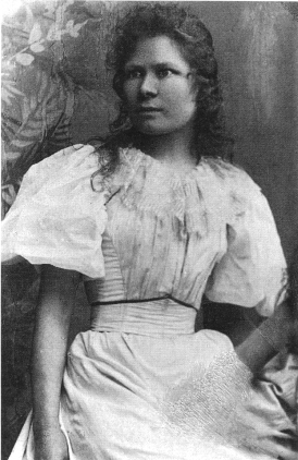 Photograph of the Finnish actor Staava Haavelinna (1866–1953), in the role of Margareta by Aleksis Kivi.